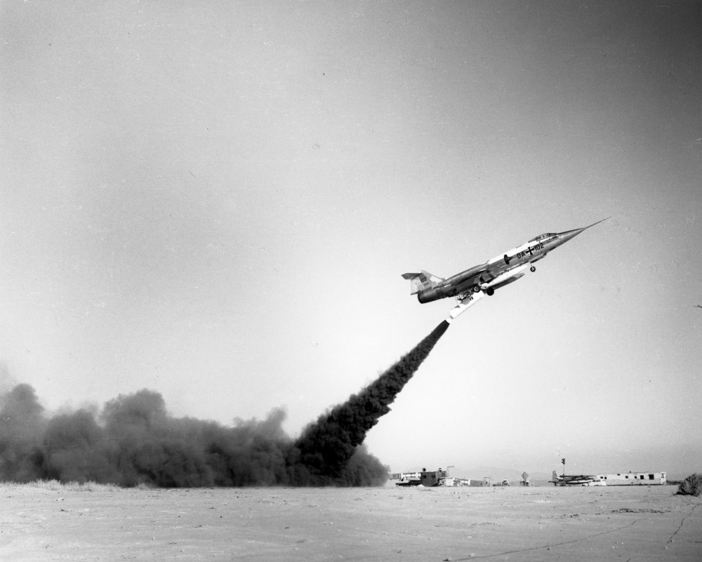 A Lockheed F-104G blasts off as part of Zero Length Launch tests at Edwards Air Force Base